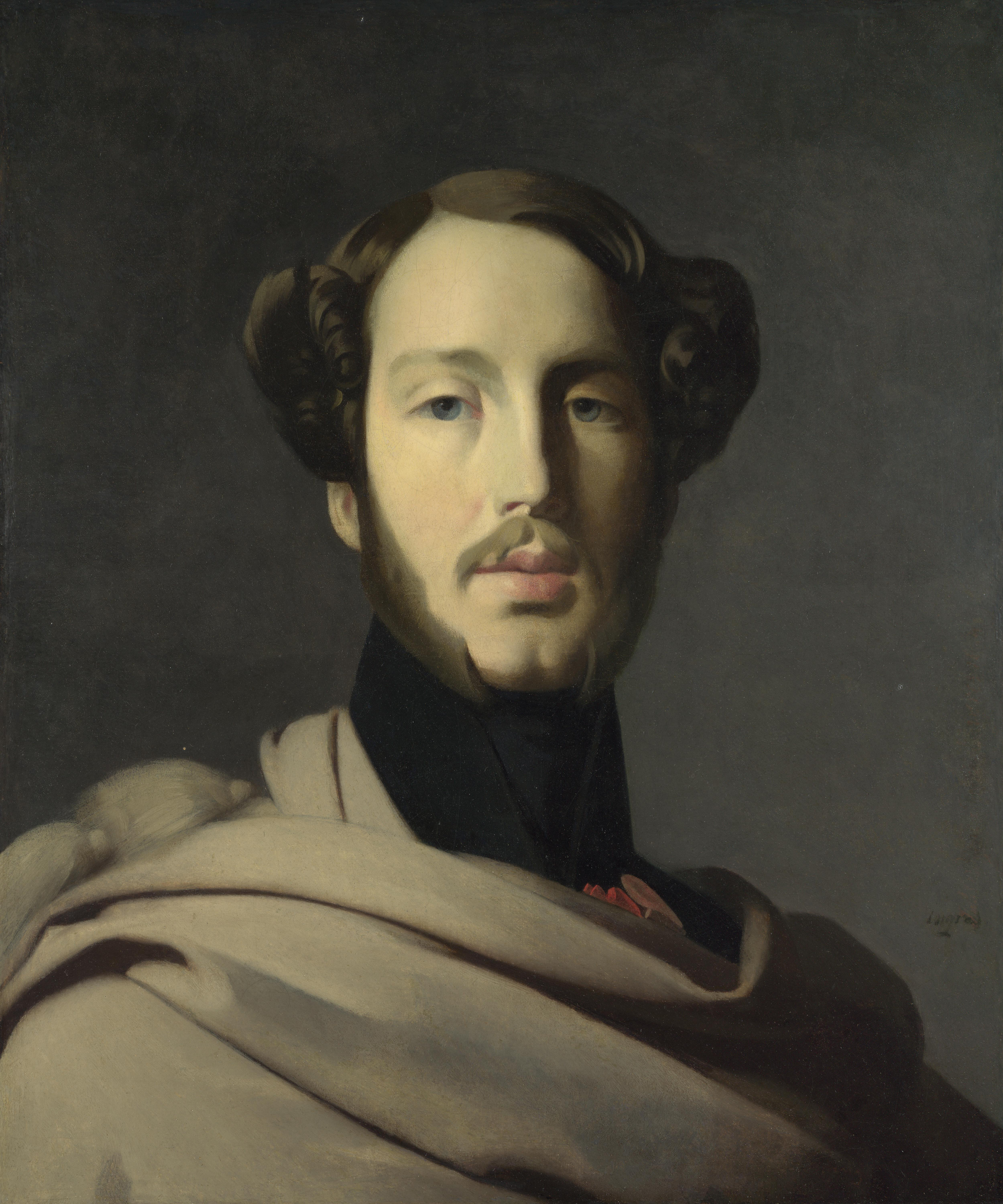 The Duc d'Orléans